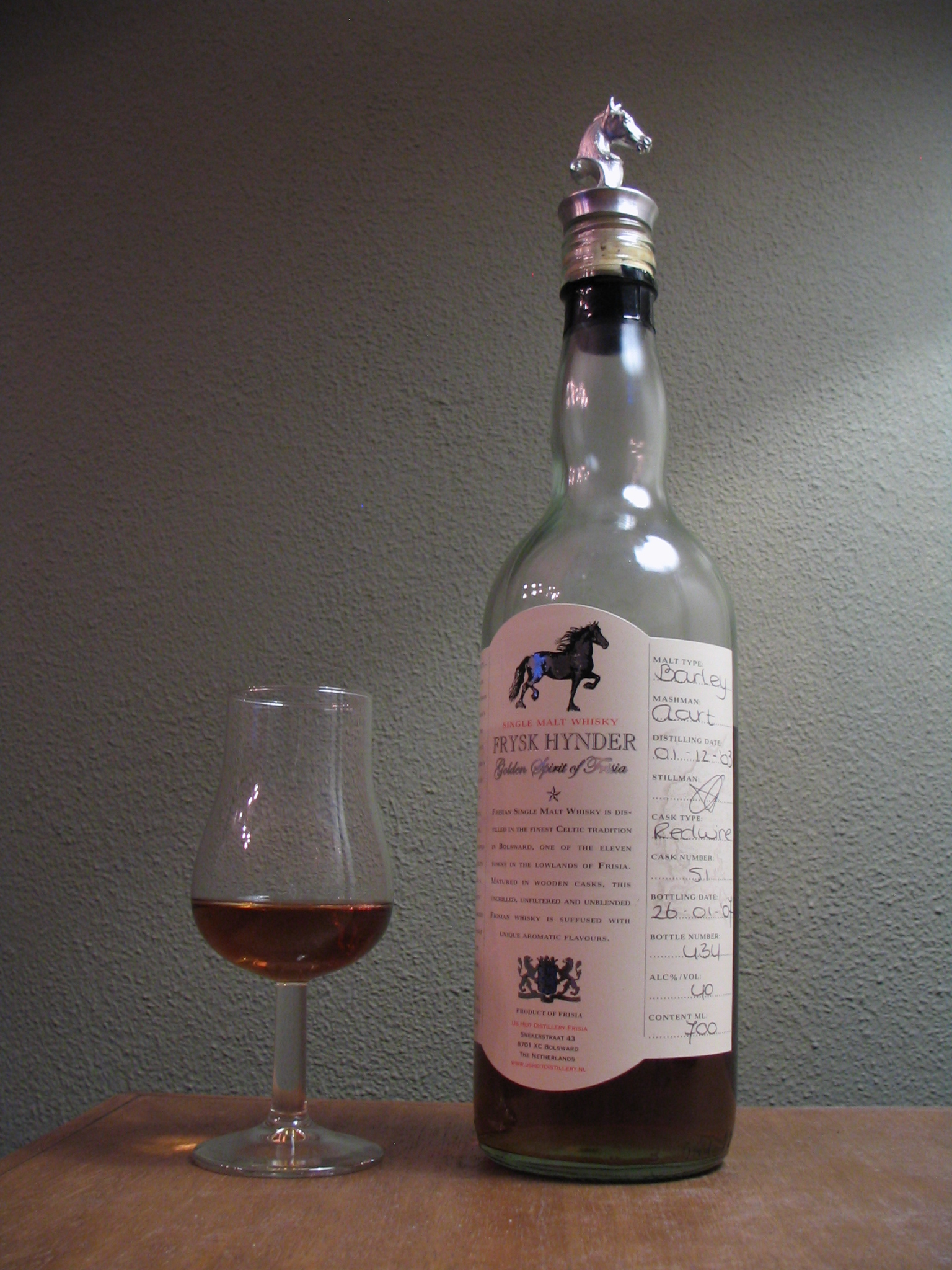 Bottle of Frysk Hynder whisky and a glass